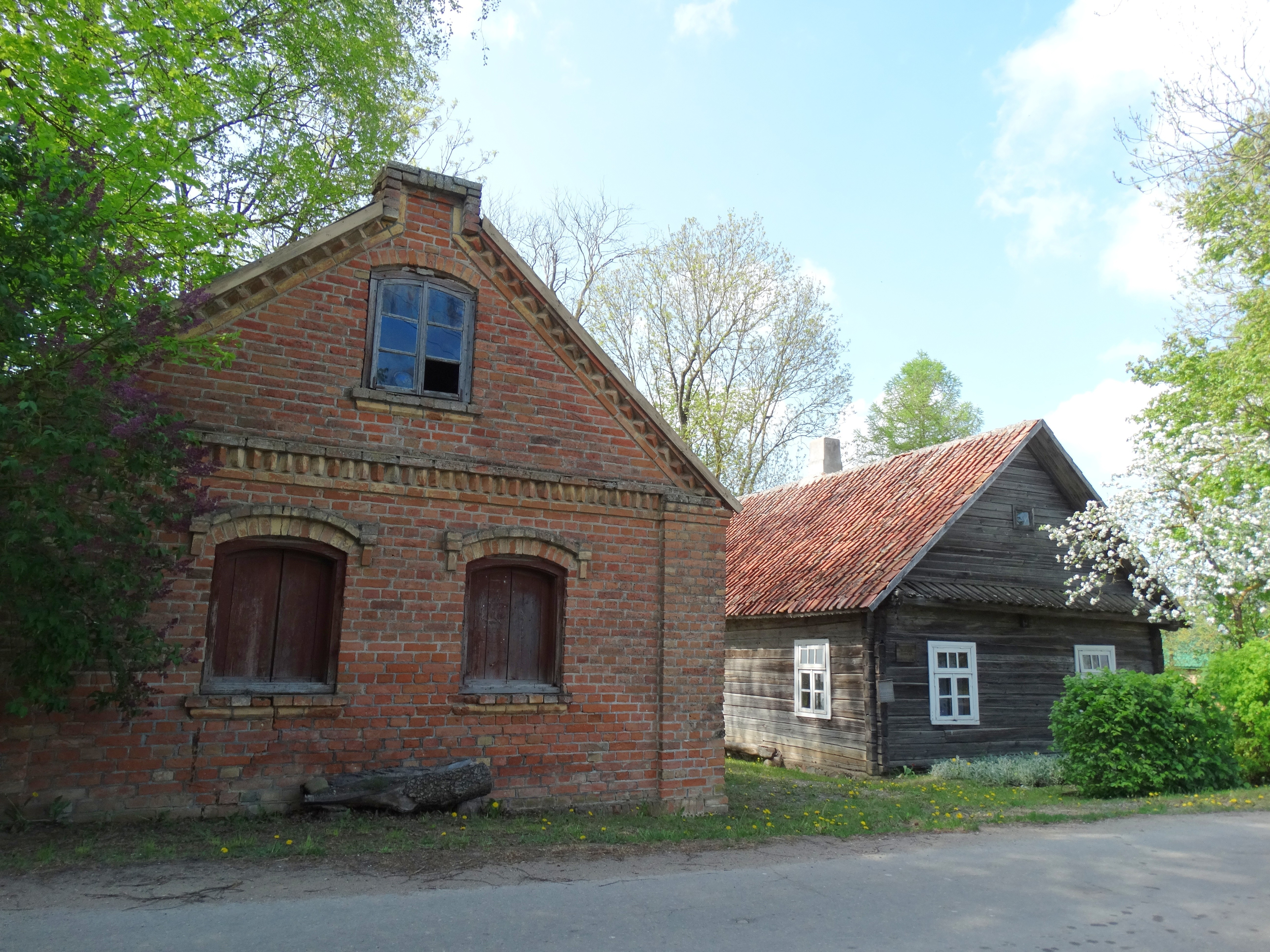 House of Požela family, Bardiškiai, Pakruojis district, Lithuania